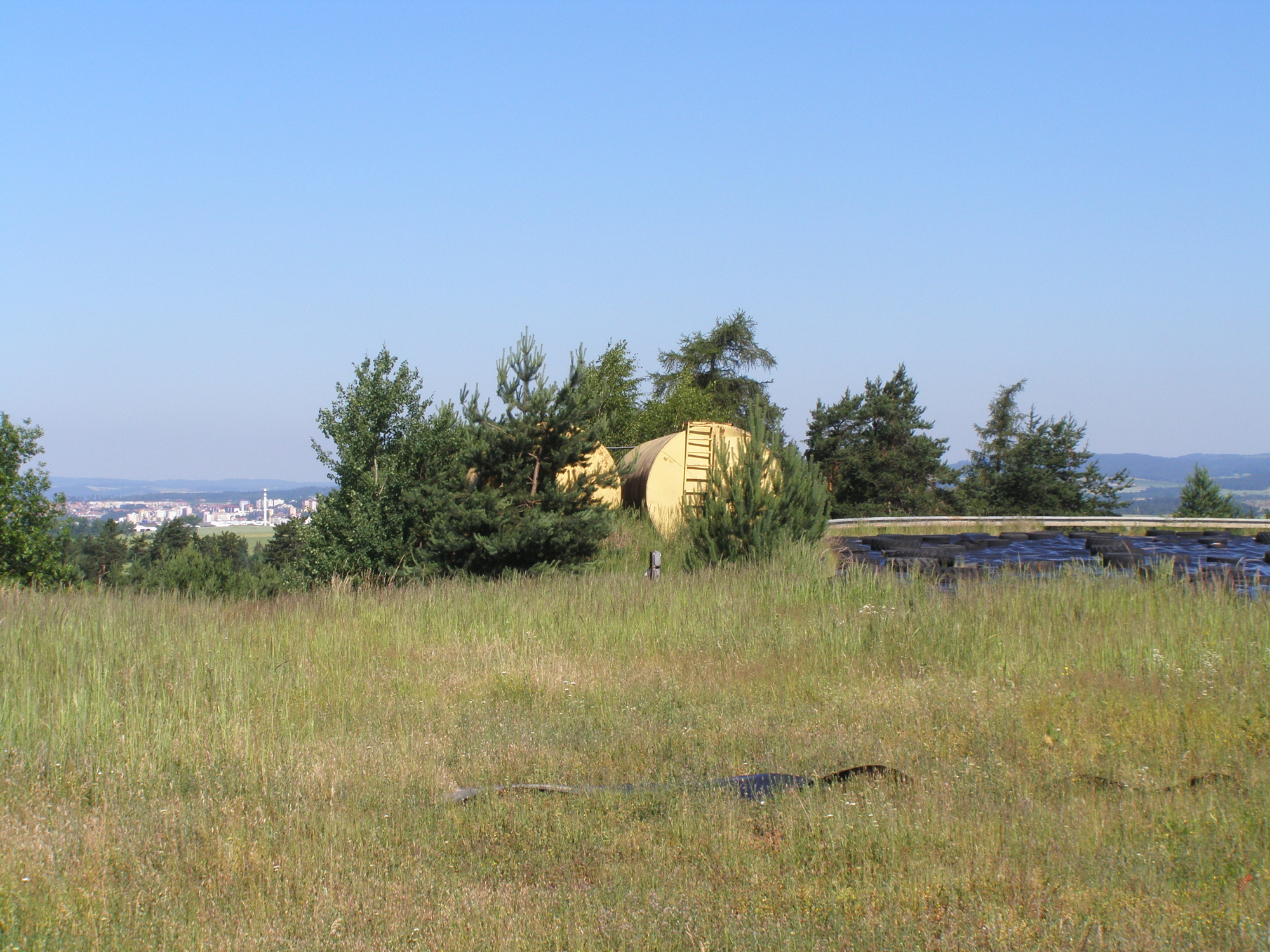 Slavičky. Pozďátky waste dump